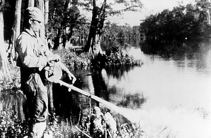 In 1958, The United States' National Malaria Eradication Program used an entirely new approach implementing DDT for spraying of mosquitoes. DDT, first developed during the early stages of WWII, was very effective in combating vector-borne diseases such as malaria, typhus, but was banned by the Environmental Protection Agency in June, 1972, from general use in the United States.